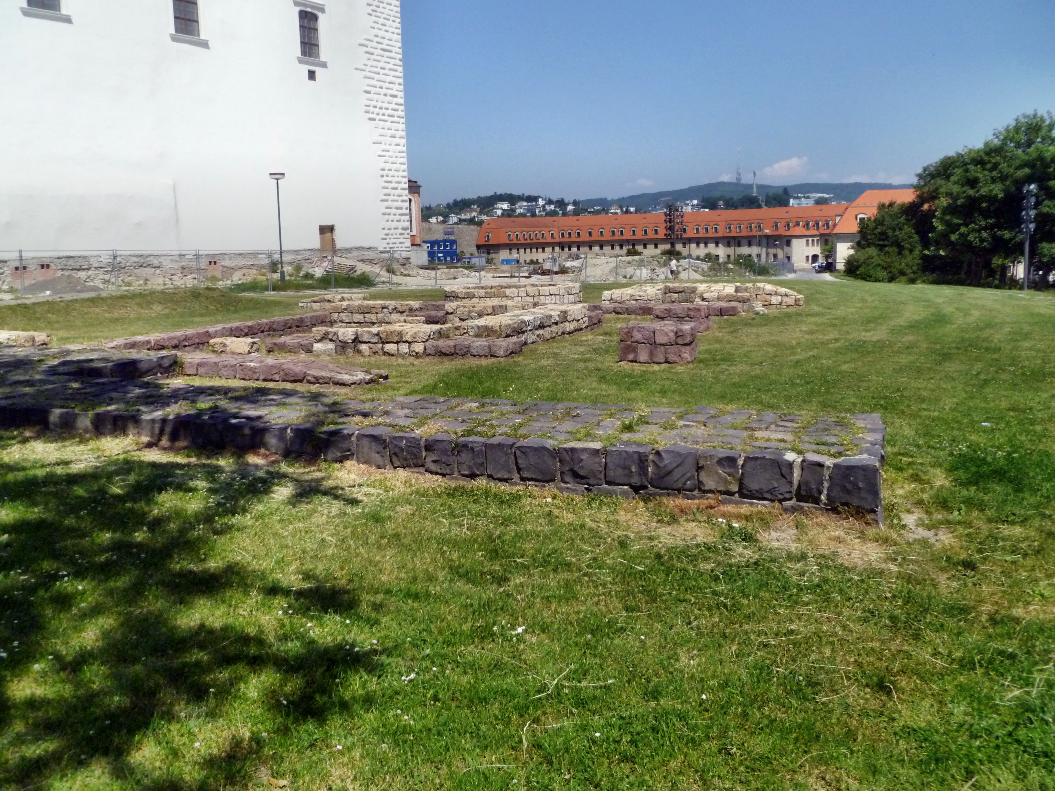 Foundations of the Great Moravian Basilica (9th century) and the Church of the Holy Saviour (11th century); Bratislava Castle